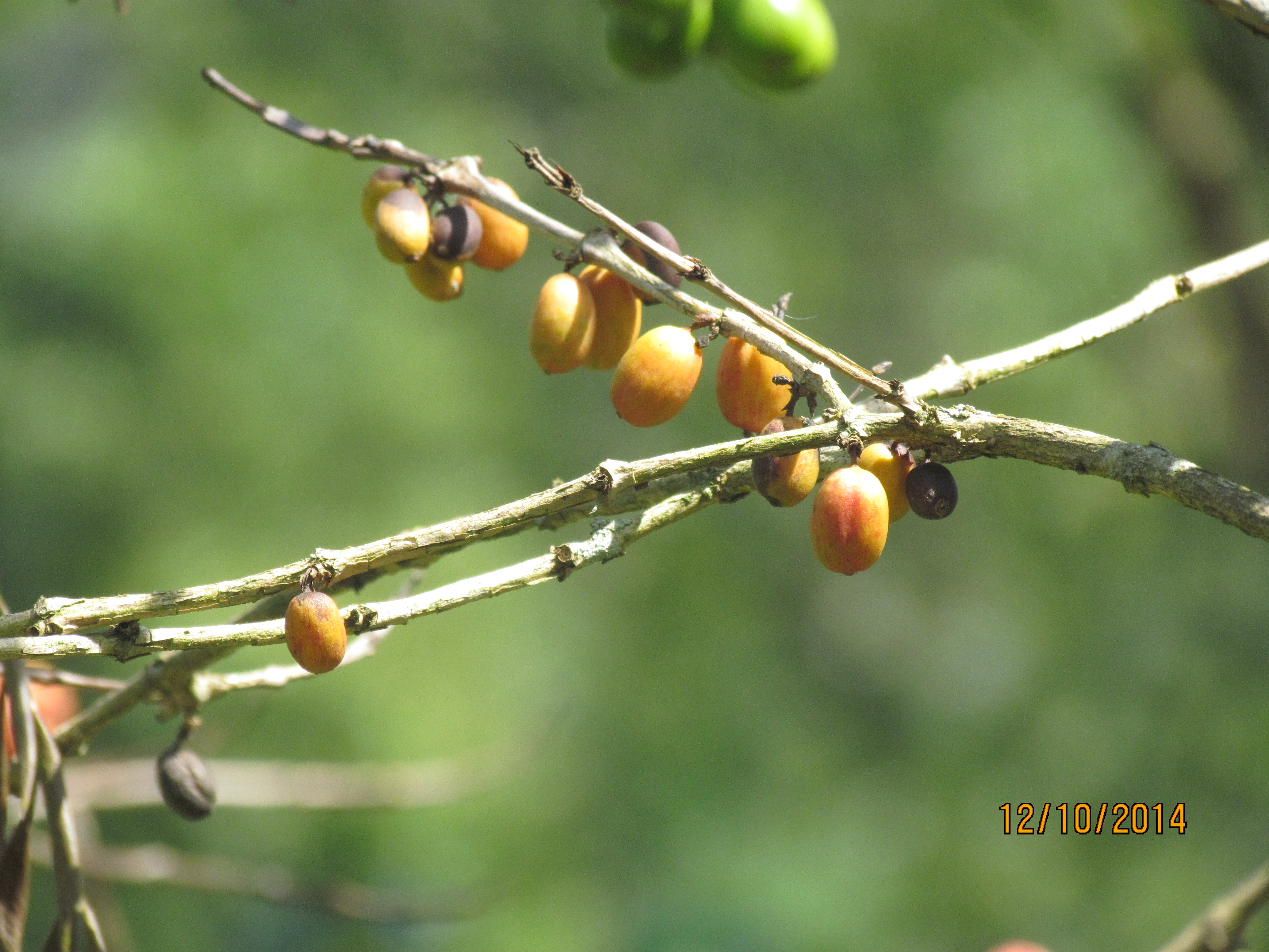 Coffee berries on a branch This is an image of food from Uganda